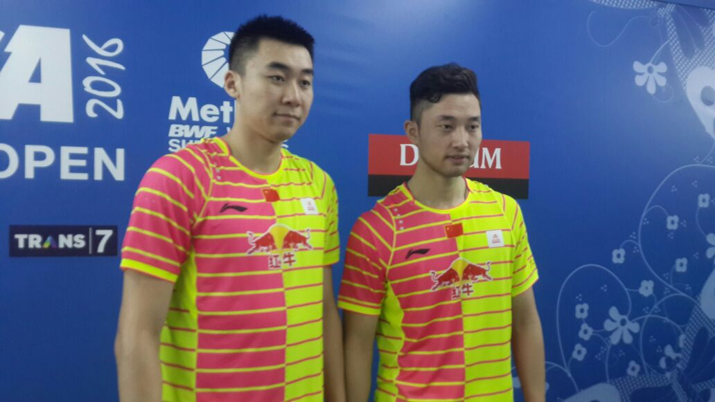 Hong Wei and Chai Biao during a press conference at the 2016 Indonesia Open